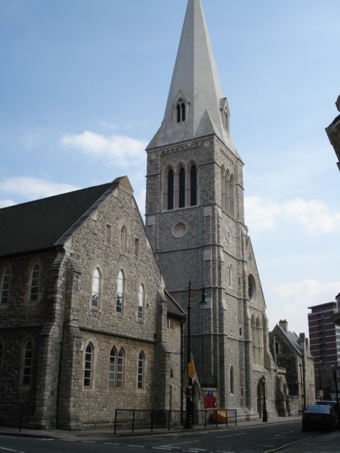 St Barnabas' parish school (left) and church, Pimlico, London SW1, seen from the northwest